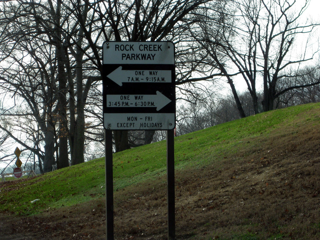 Sign showing direction of lanes on Rock Creek Parkway in Washington, D.C.